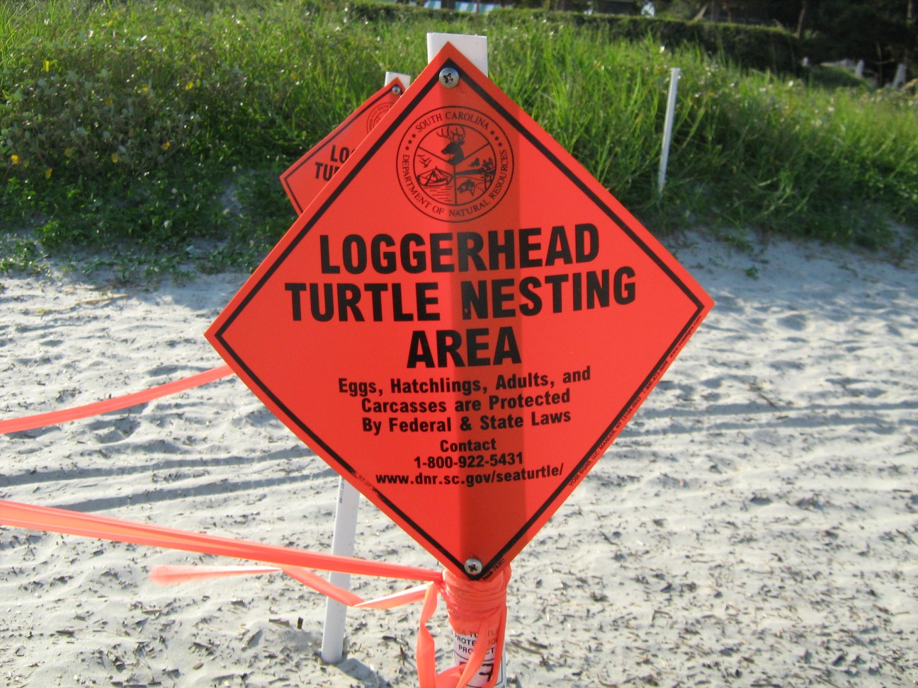 Digital photograph taken by MoodyGroove on August 1, 2007 on Hilton Head Island at the beach in Sea Pines Resort.